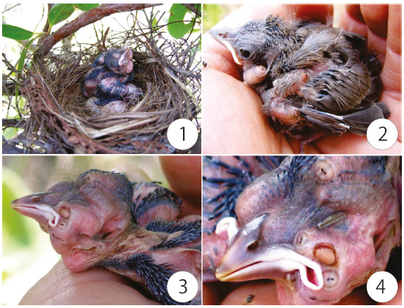 Figures 1-4 (1) Nest of Neothraupis fasciata (Lichtenstein), (Passeriformes, Thraupidae) with parasitized nestlings; (2) Nestling of Neothraupis fasciata (Lichtenstein), (Passeriformes, Thraupidae) parasitized with Philornis torquans (Nielsen) subcutaneous larvae; (3) Head (dorsal view) of a nestling of Neothraupis fasciata (Lichtenstein), (Passeriformes, Thraupidae) with parasitized with Philornis torquans (Nielsen) subcutaneous larvae; (4) Head (dorsal-lateral view) of a nestling of Neothraupis fasciata (Lichtenstein), (Passeriformes, Thraupidae) with parasitized with Philornis torquans (Nielsen) subcutaneous larvae.